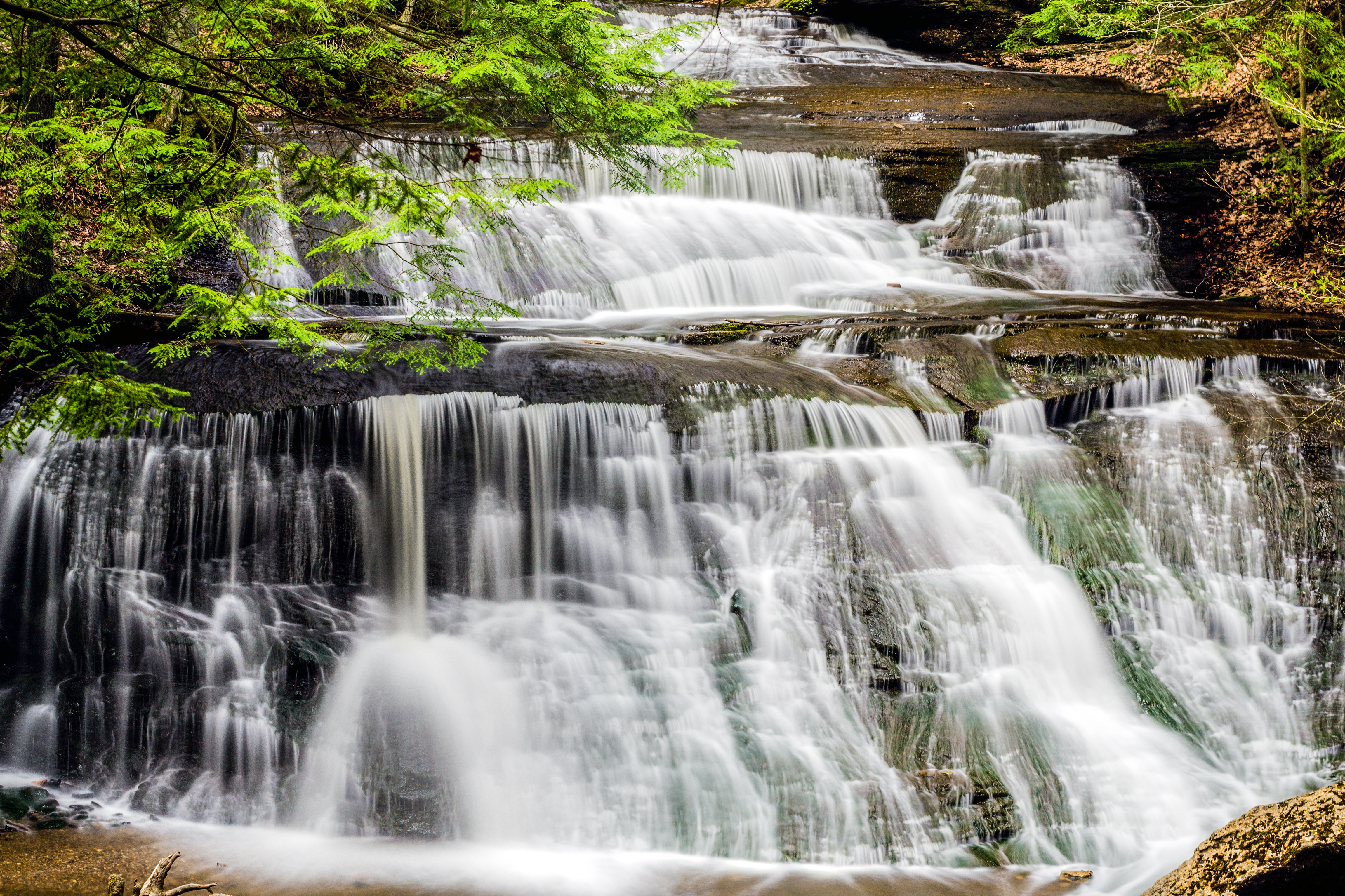 Multiple exposure photo of Hells Hollow Falls at McConnells Mill State Park in Lawrence County, Pennsylvania, USA